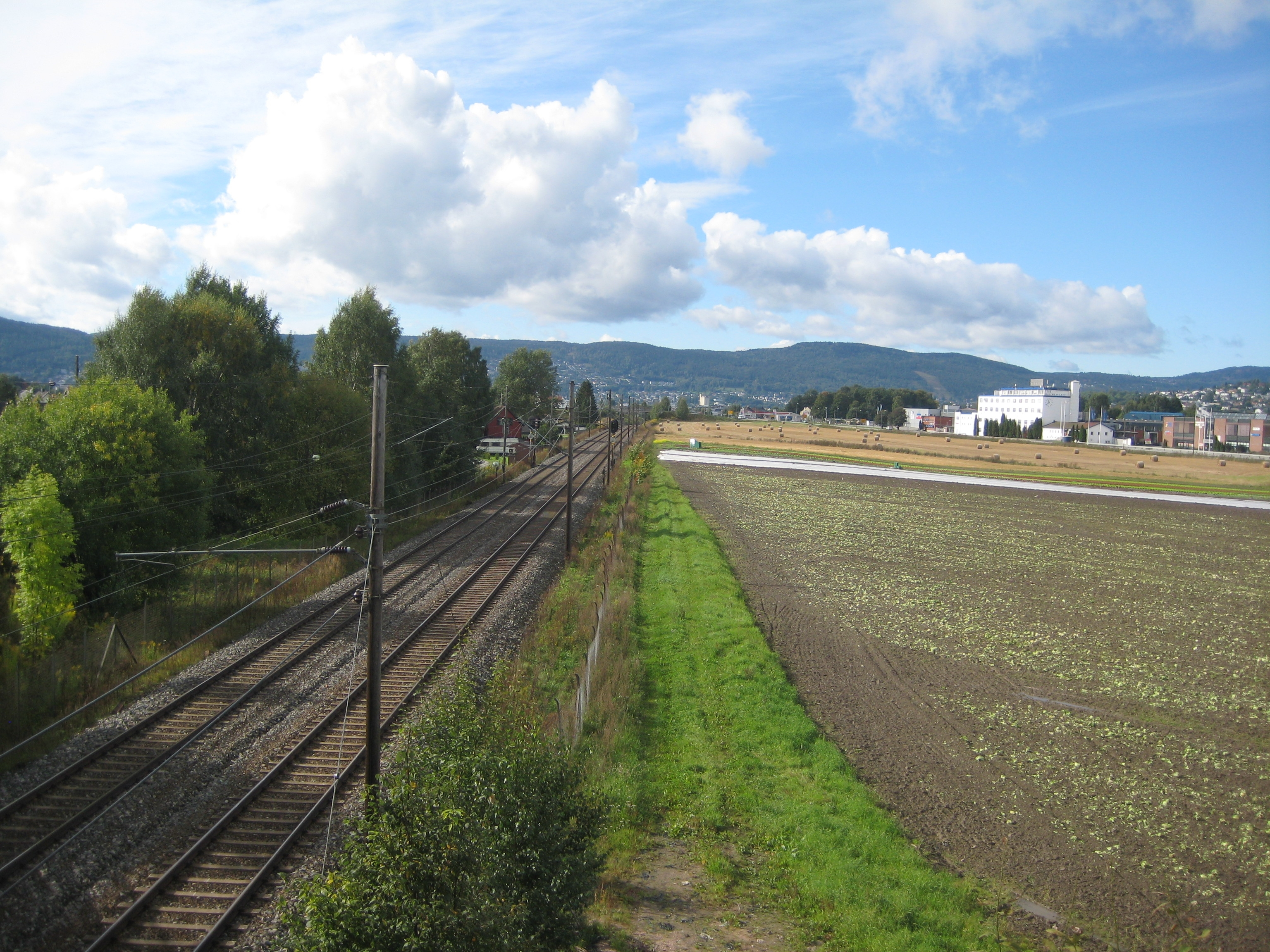 Drammenbanen (railroad) at Huseby in Lier Muncipality in Norway. The railroad crosses Spartabanen, the original home ground of football team IF Sparta. The football field was expropriated by Norwegian rail (NSB) in 1962.